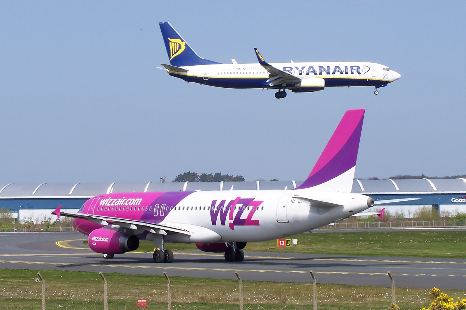 Ryanair 737 landing on runway 13 at Prestwick while Wizz A320 HA-LPM waits at the holding point